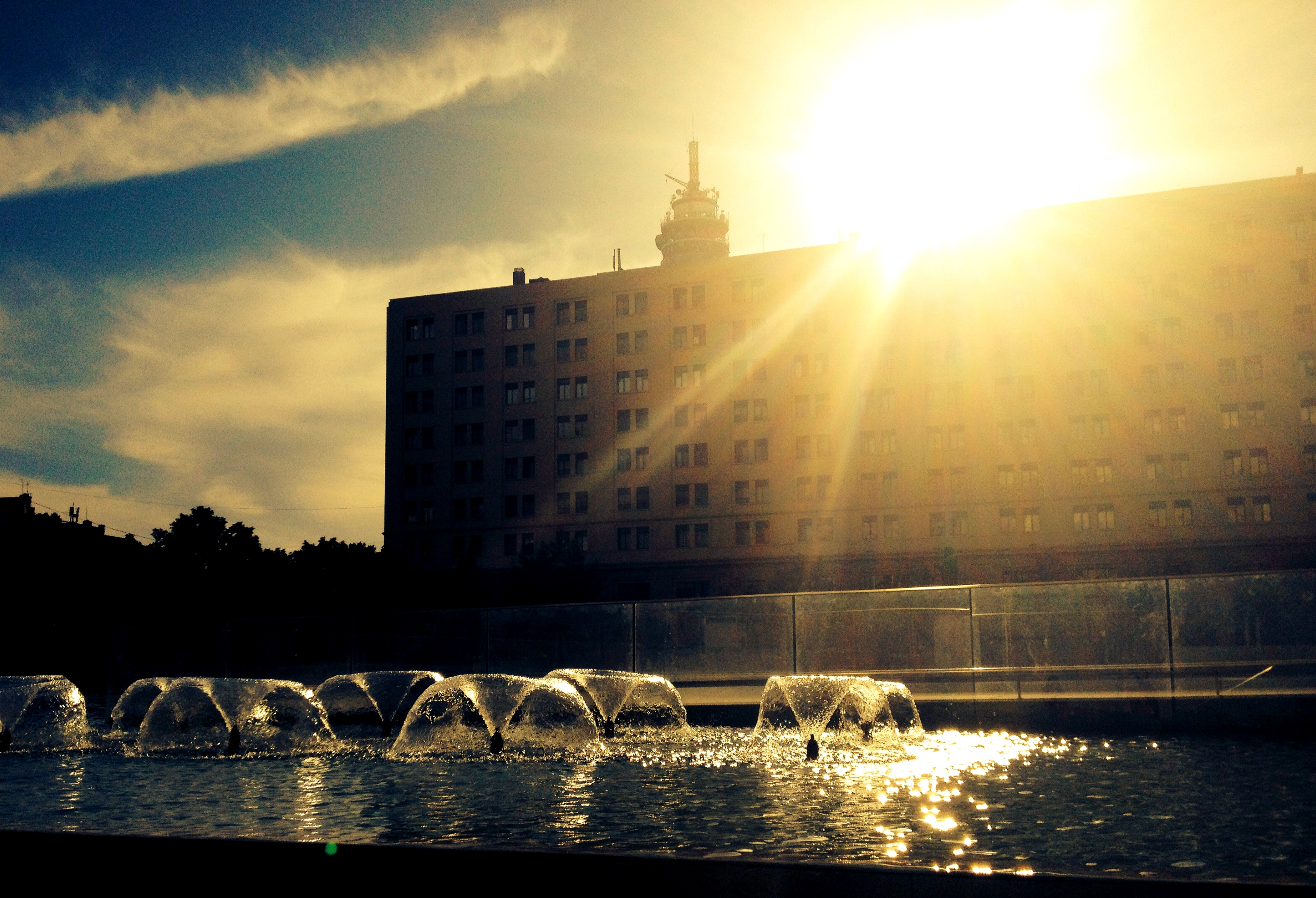 Sunrays over you.